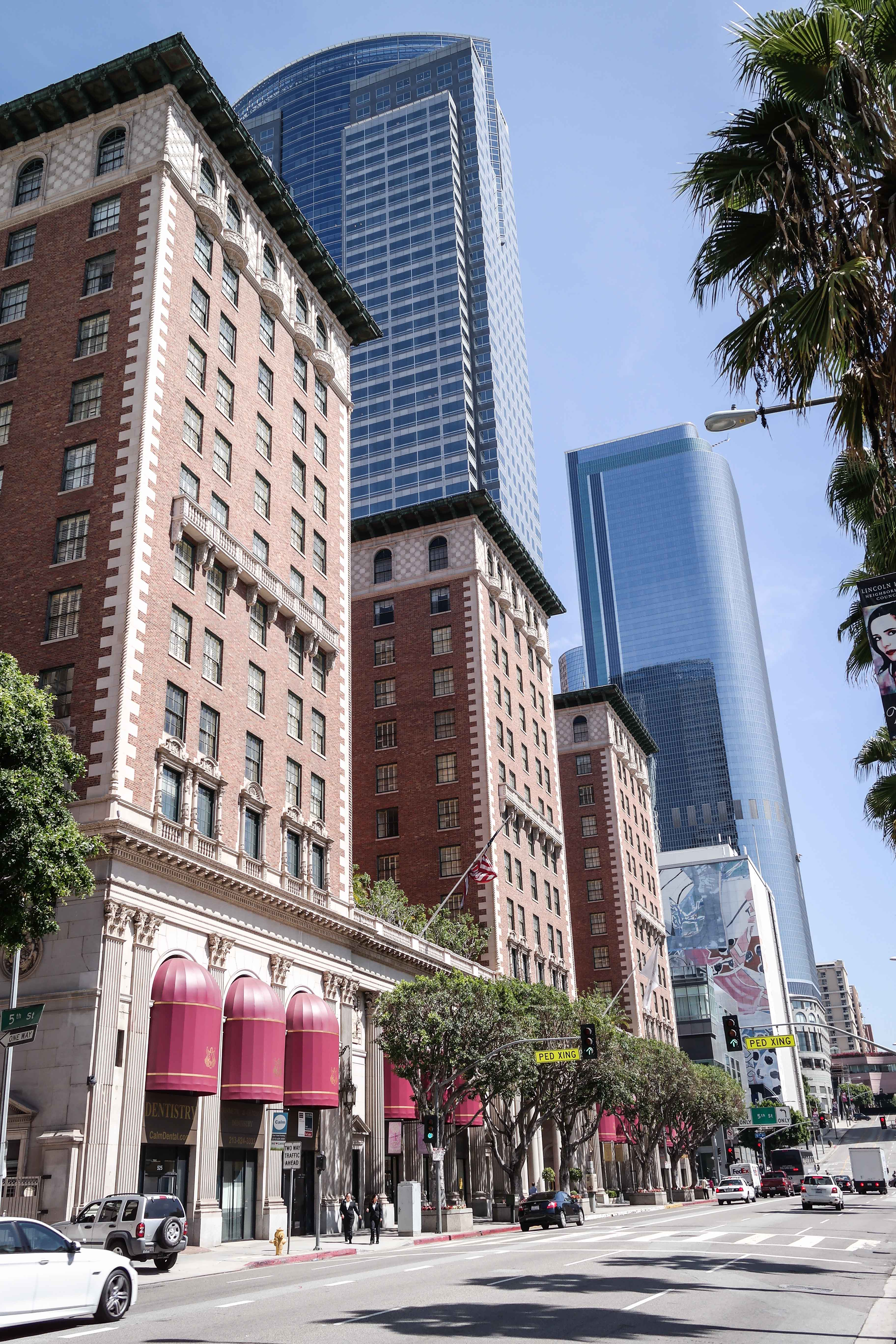 A view of the Grand Avenue facade of the Millennium Biltmore Hotel — in Downtown Los Angeles